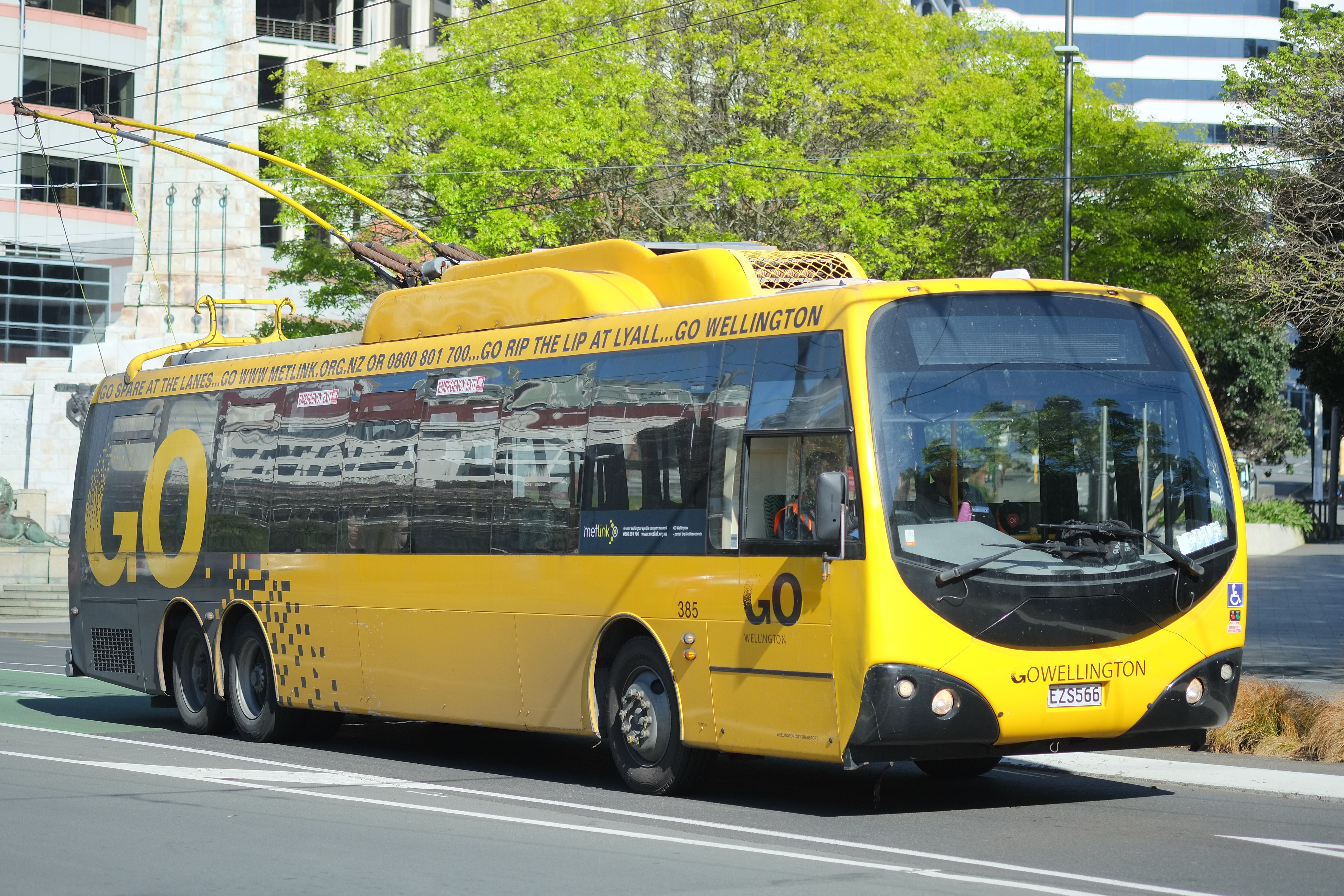 "Go Wellington" three-axle Designline SLF 42-seat trolleybus #385 driving past the Wellington Cenotaph on Lambton Quay less than two weeks before the Wellington trolleybus network was decommissioned at the end of October 2017.